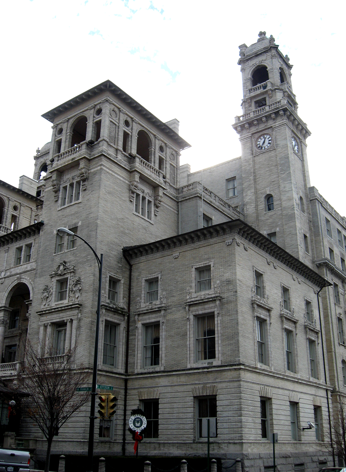 The historic Jefferson Hotel — in Richmond, Virginia. Designed by the NYC firm Carrère and Hastings in 1895. On the National Register of Historic Places in Richmond.